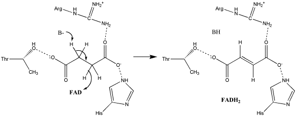 This is the E2 succinate oxidation mechanism found in Succinate Dehydrogenase